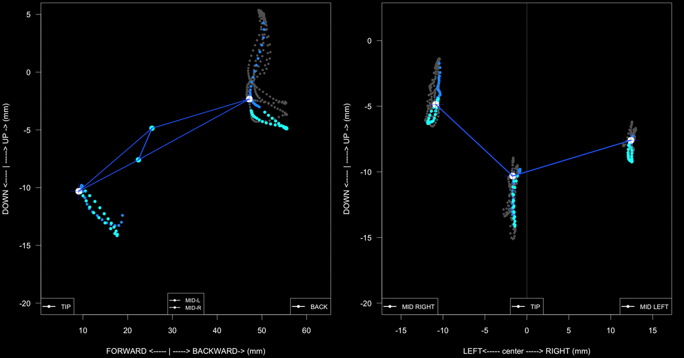 EMA Triple Tonguing Visualisation